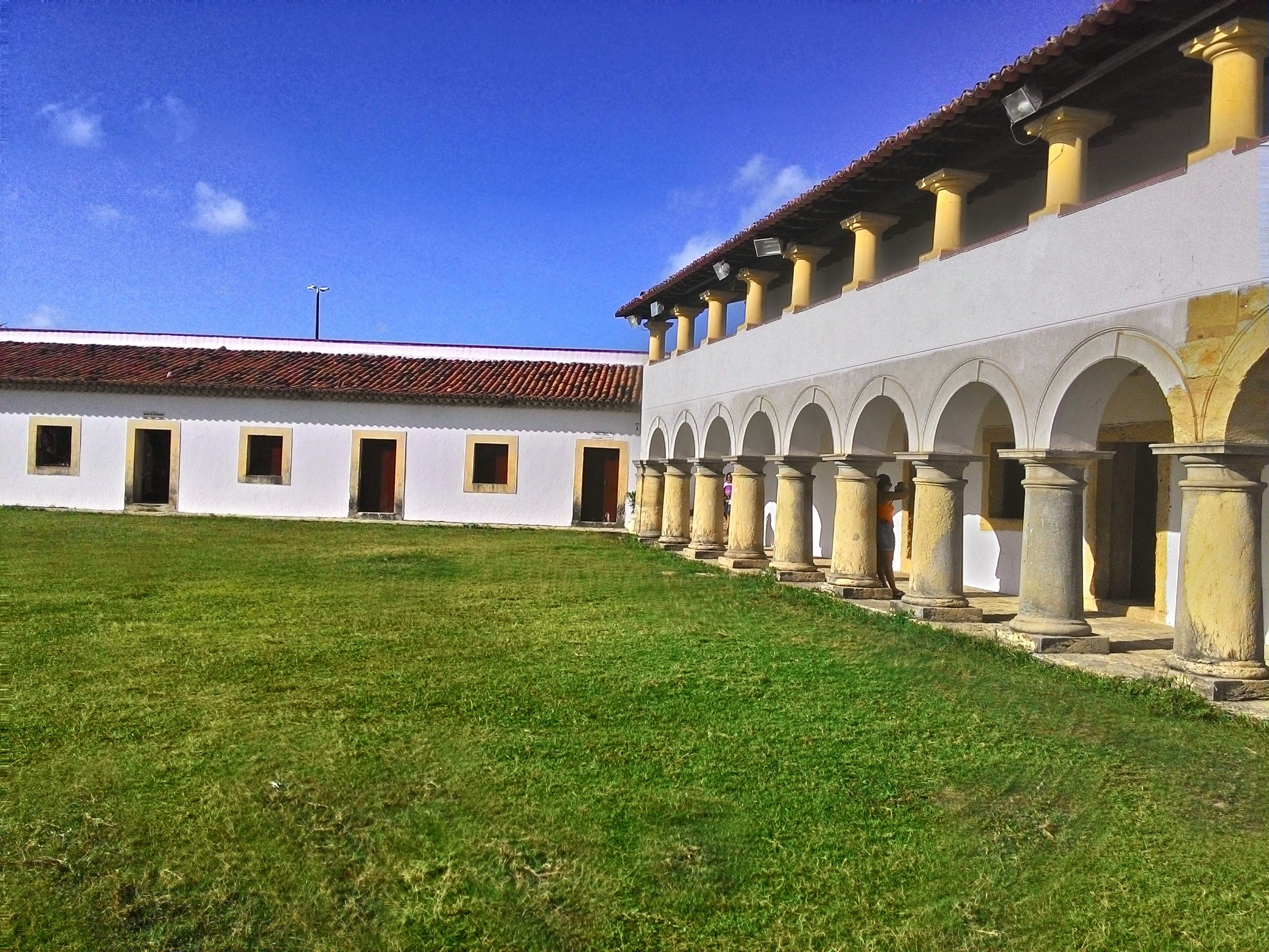 Fortaleza de Santa Catarina, Cabedelo, Paraíba